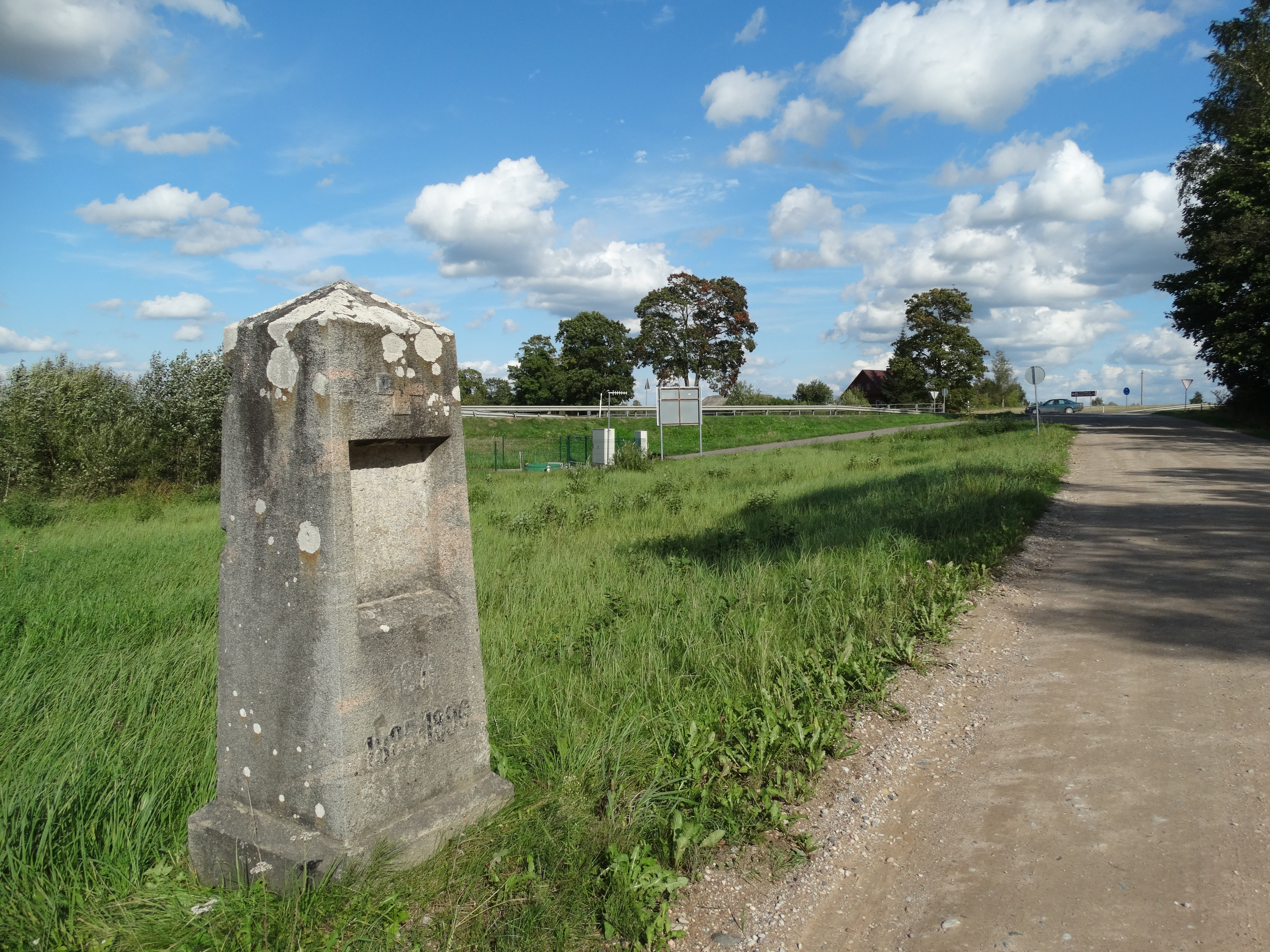 Vyžuonėlės manor obelisk, Utena district, Lithuania